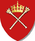 Herb interrexa Rzeczypospolitej author User:Mathiasrex